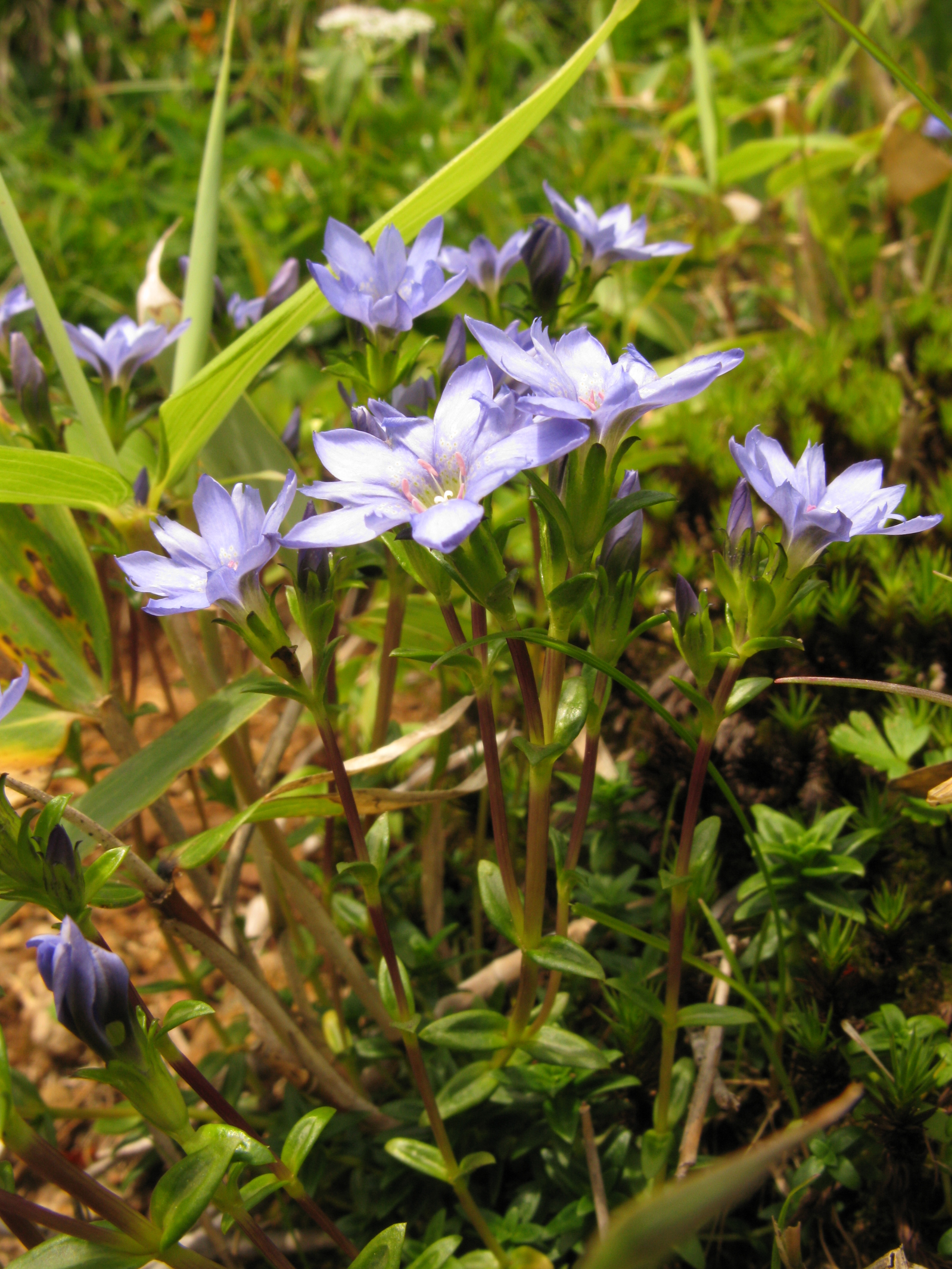 Gentiana nipponica,Mt.Nishiazuma-yama,Fukushima pref.,Japan